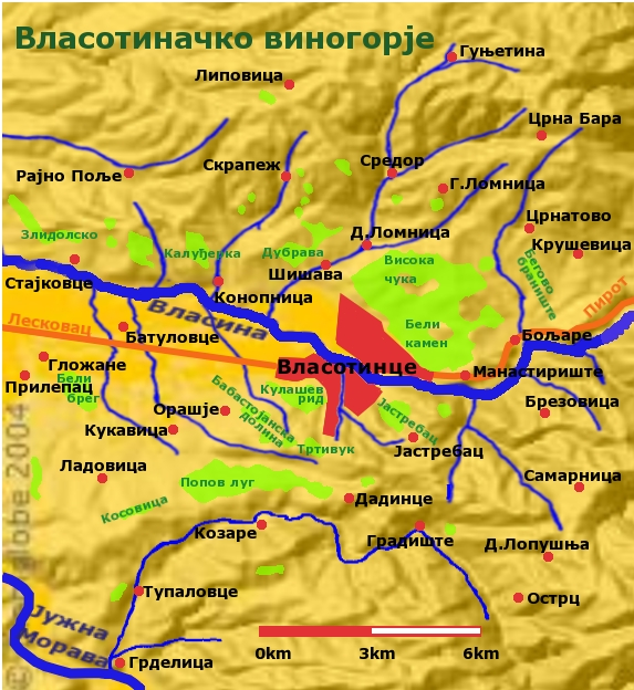 Vineyards map, Vlasotince area, Serbia